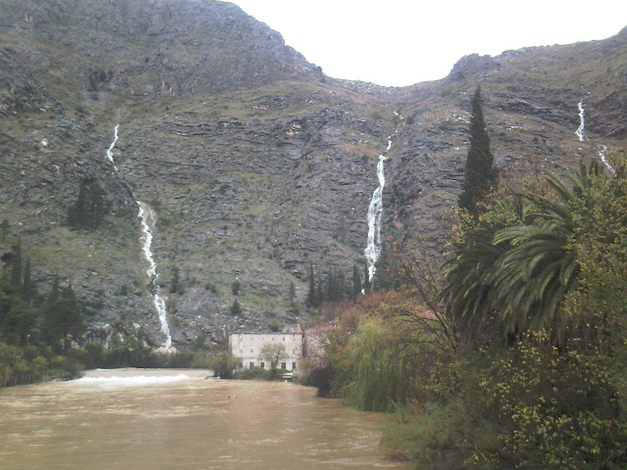 karst spring and waterfalls above the river Ombla in the rainy season